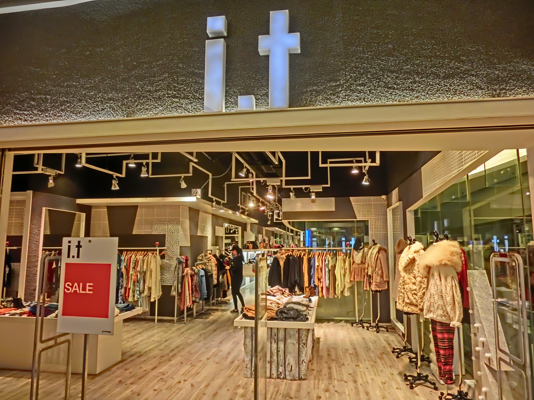 觀塘 創紀之城五期apm, Hong Kong, Kwun Tong, Hong Kong